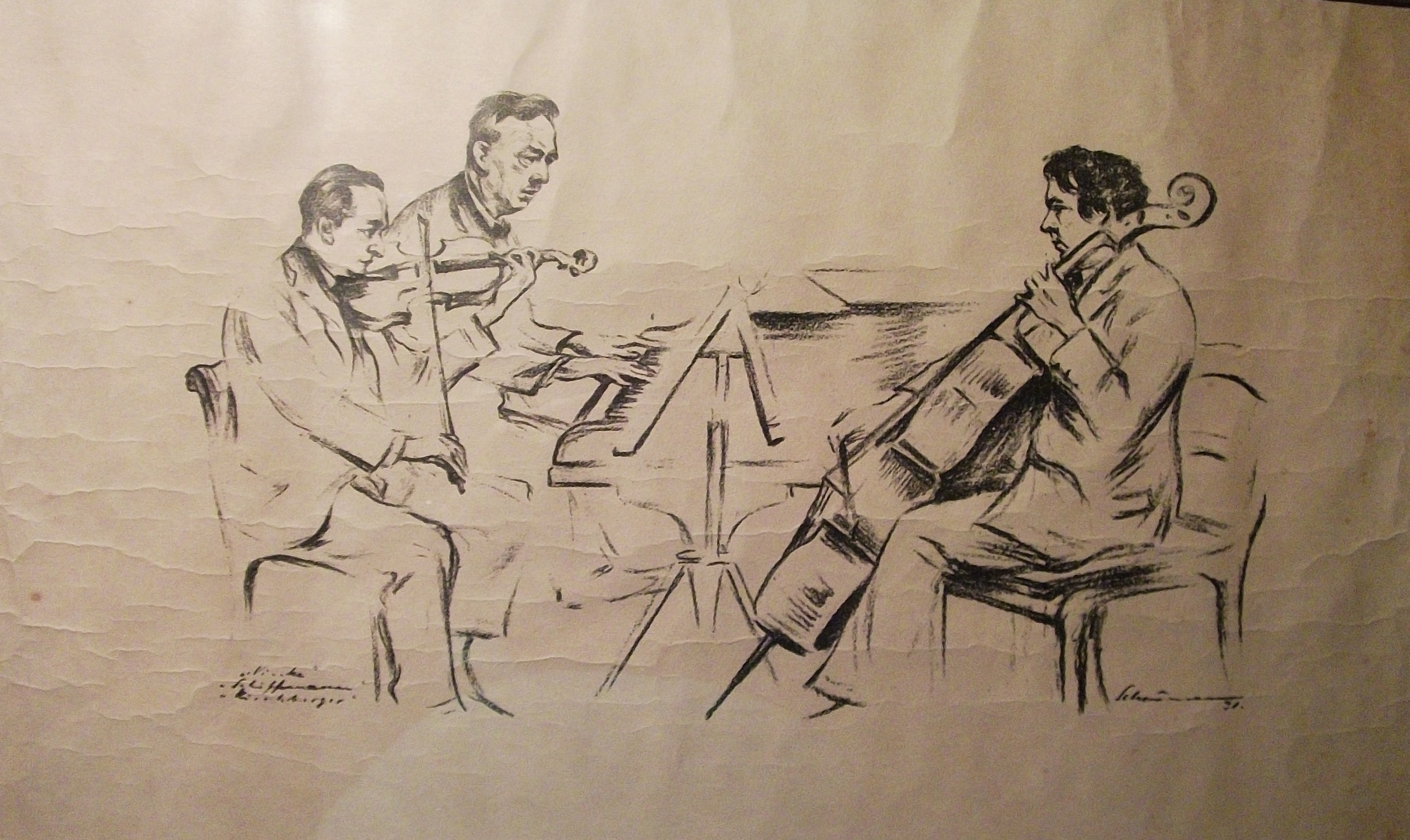 Drawing of the Ninke-Trio (Schiffmann (left), Karl Ninke (middle), Kirchberger (right)). Schiffmann was the successor of Müller. This trio presented classical music in the Ostmarken-Rundfunk in Königsberg, East Prussia in the 1920s and 1930s.